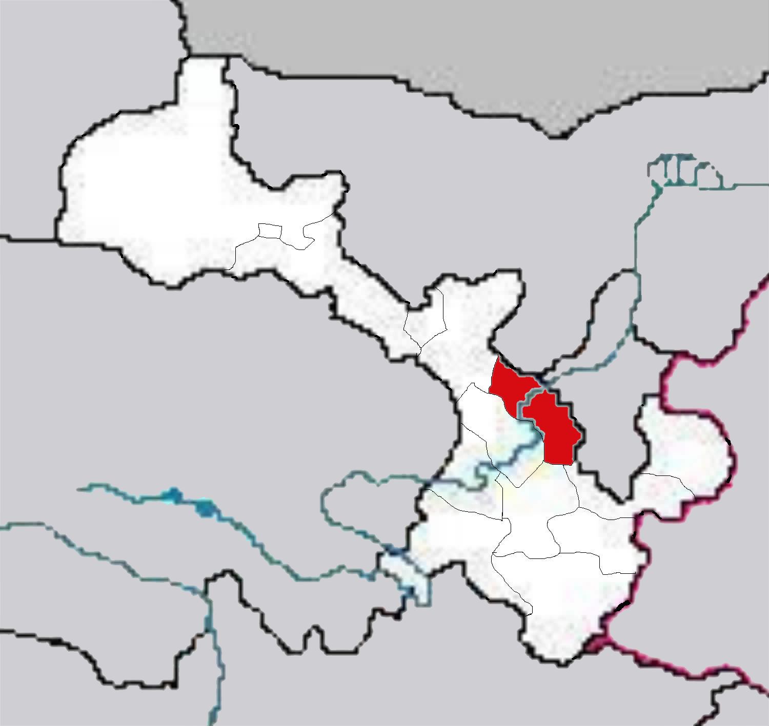 Maps of Gansu Province of China.